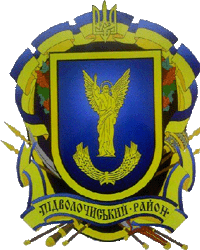 Coats of arms of Pidvolochyskyi Raion